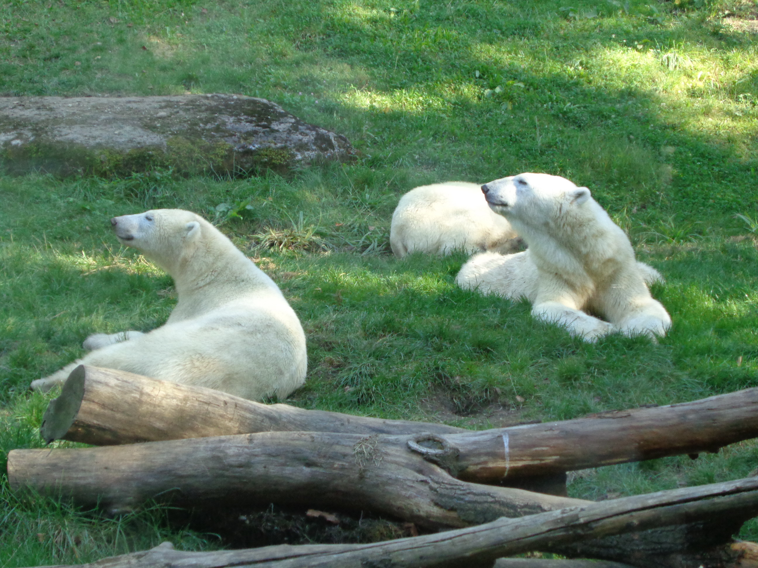 Polar bears at the Hellabrunn Zoo, Munich, Germany